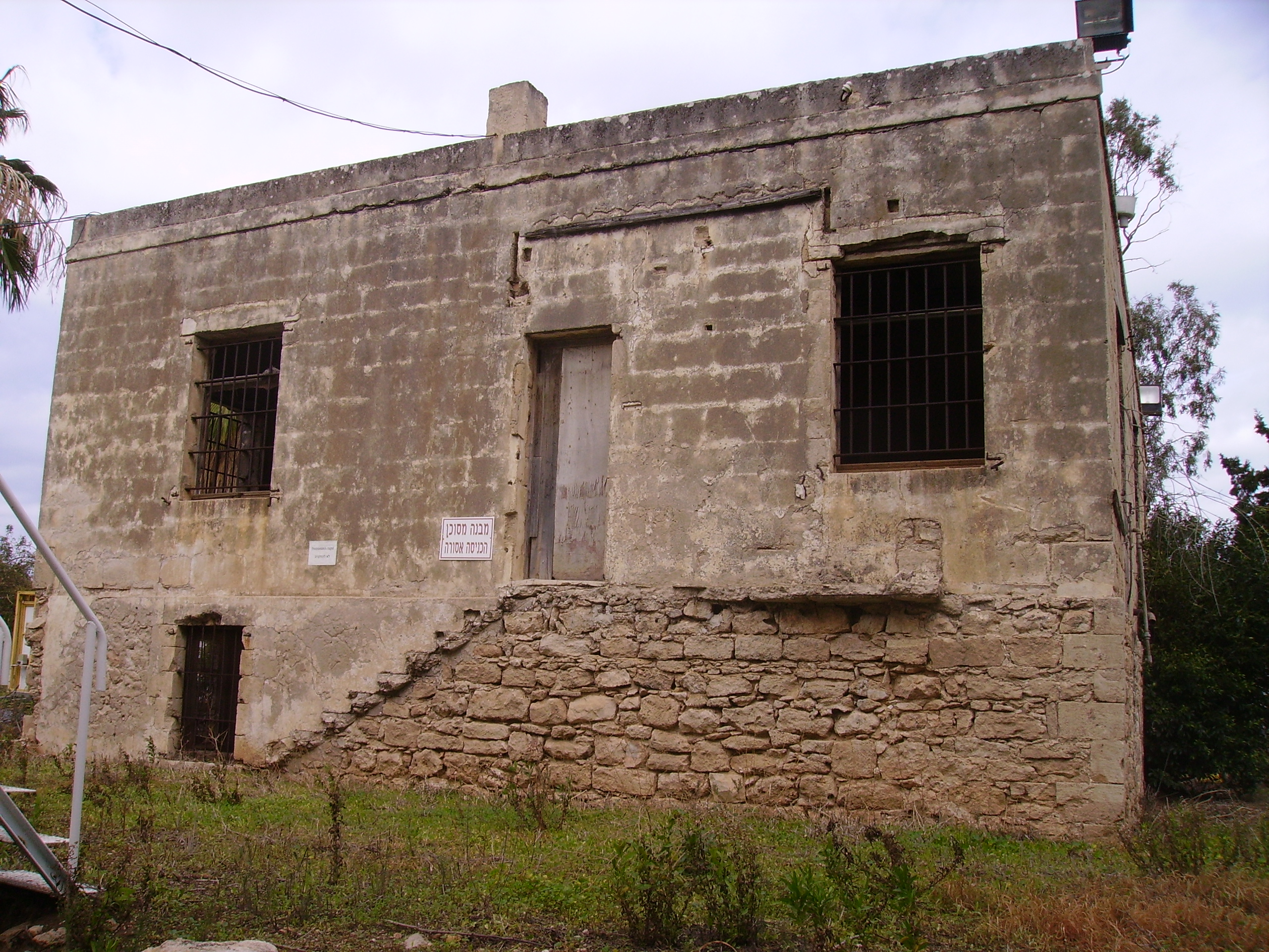 Neuhardthof was a small Templers settlement in land of Israel near Haifa. It started in 1897. they suffered alot from thefts made by the residents of the near by arab village Al-Tira. In 1910 The farmer Fritz Unger was killed by people of Al-Tira and his family decided to leave Neuhardthof and move to Waldheim (Alonei Abba). The settlement was abandoned.This is the picture of the only building that still exist in the area of the Carmel Forge factory near the city Tirat Carmel